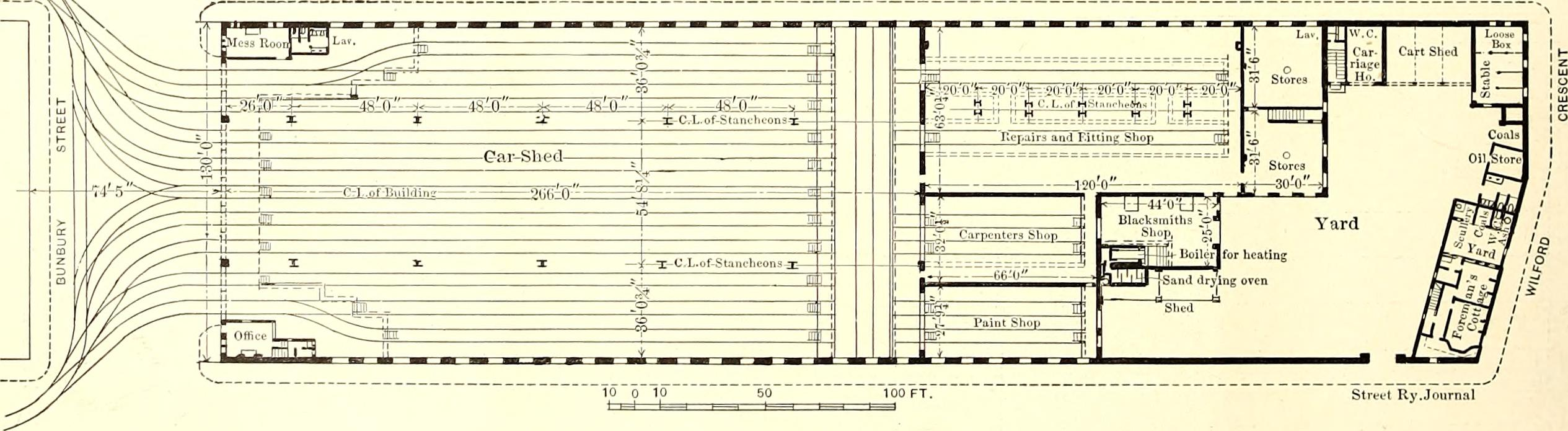 Identifier: streetrailwayjo201902newy Title: The Street railway journal Year: 1884 (1880s) Authors: Subjects: Street-railroads Electric railroads Transportation Publisher: New York : McGraw Pub. Co. Text Appearing Before Image: ' Text Appearing After Image: PLAN OF TRENT BRIDGE CAR HOUSE books, chess, draughts and other games, and over the carriagehouse and cart shed is an exceedingly well arranged and lightedbilliard room to hold two full-size tables with benches on oneside. It is believed that these rooms are very much appreciatedby the men. The whole block forms a group of buildings which show thatthey have been carefully planned and thought out, and are a creditto those who have been connected with the work. The buildingsdo not display any undue or lavish expenditure of money to ob-tain architectural effect, but are plain and substantial. There isalso a yard of large area, in which stores of rails, etc., can bekept. The tramways committee of Nottingham has not adopted the The whole of the interior walls, where exposed, are faced withglazed bricks. At present eight boilers only are being installed(or half the capacity of the house). These boilers are each 30 ft.long and 8 ft. diameter; they are designed for a working pressureof 160 lb